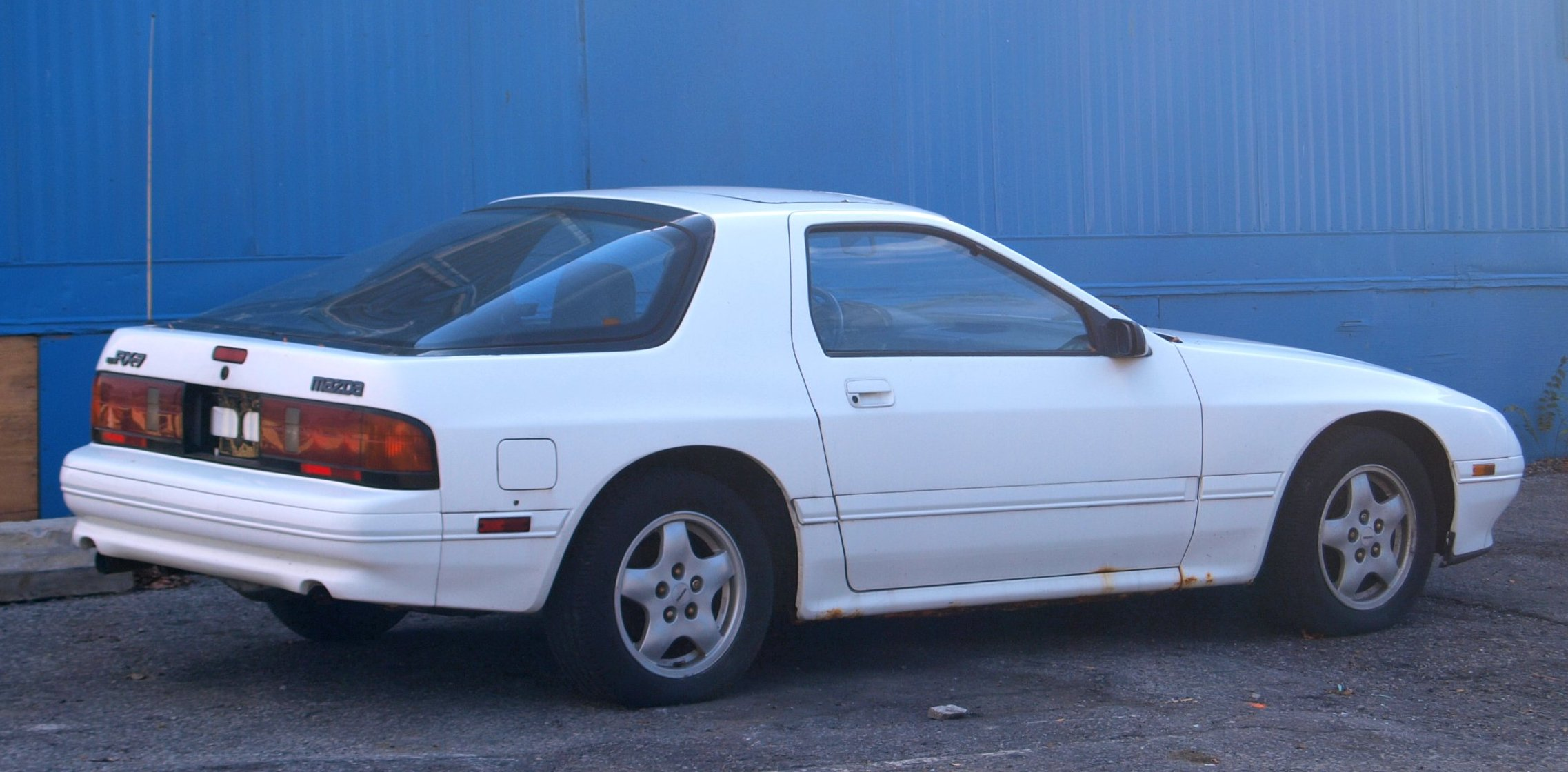 I'm surprised to see it all original!